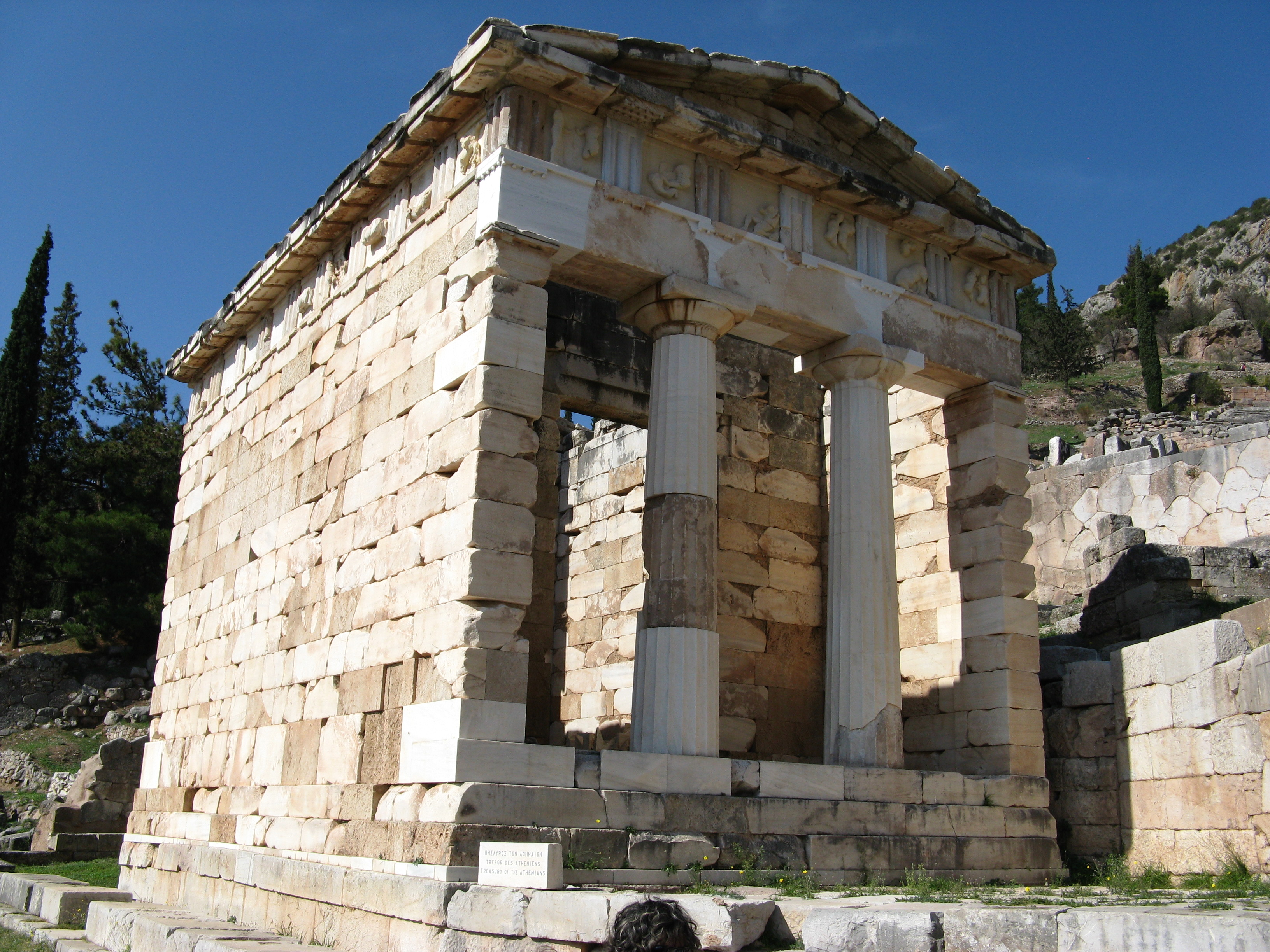 Treasury house of Athens in Delphi